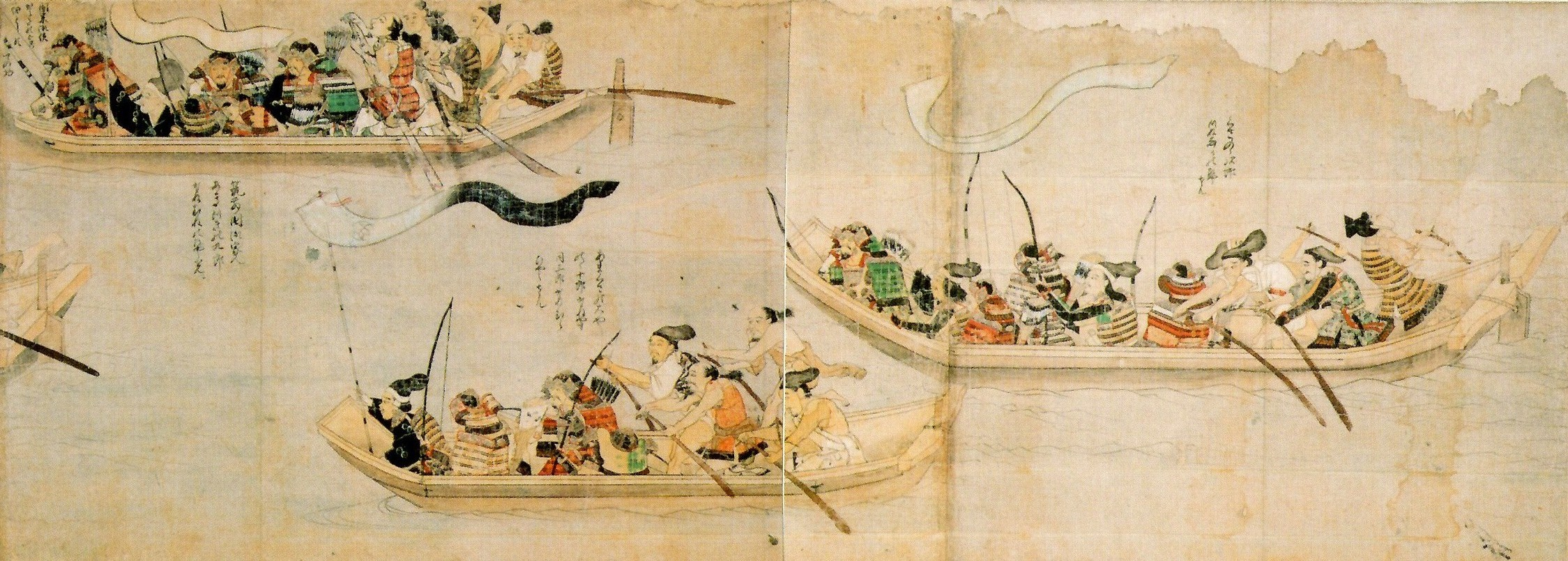 Mōko Shūrai Ekotoba e14